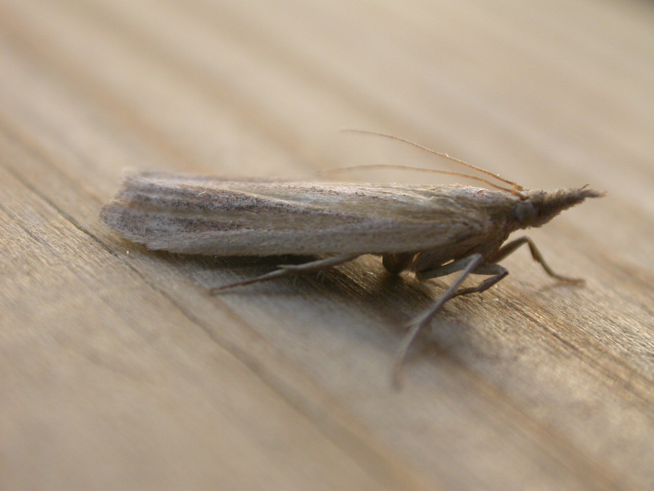 Ematheudes punctella, Gastes, Landes, SW France, 28/29 June 2003